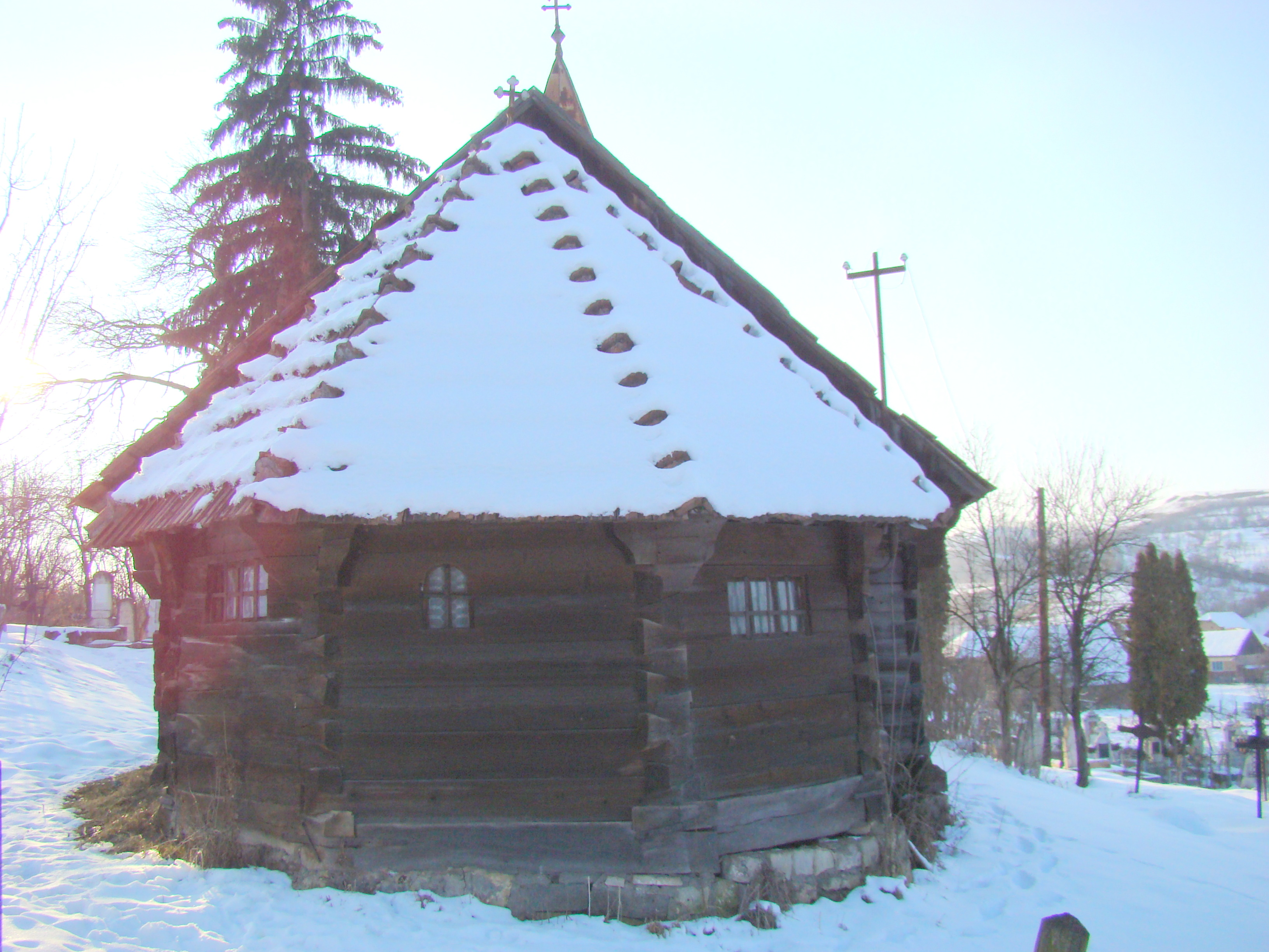 Wooden church in Gârbău, Cluj county, Romania